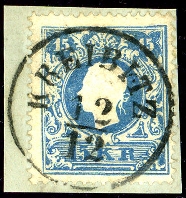 Austrian KK 15 kreuzer stamp, issue 1858 Type I, cancelled in KREIBITZ, Bohemia